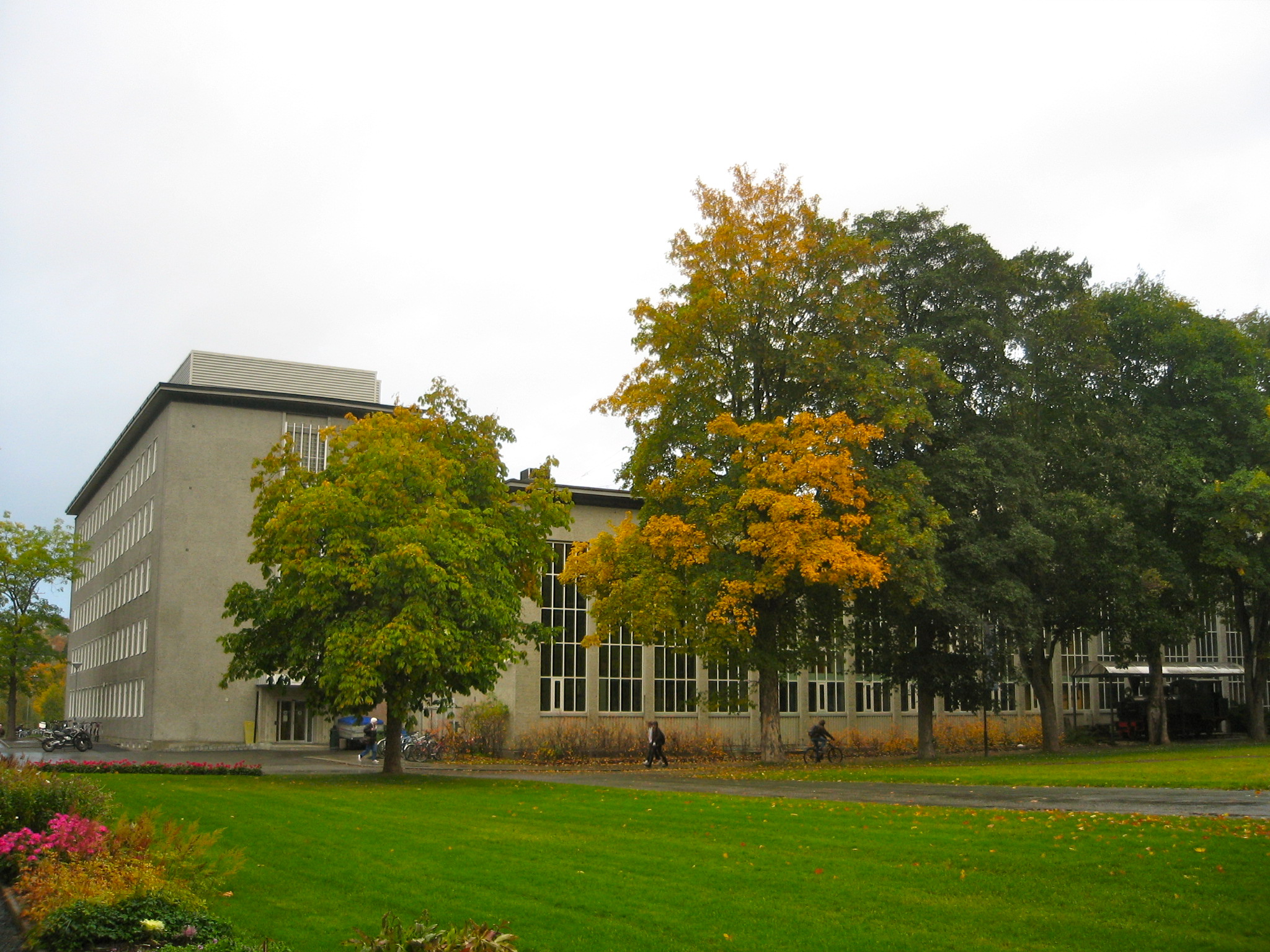 Varmetekniske laboratorier (Laboratories for thermal energy research) at Campus NTNU Gløshaugen, Trondheim. Main part erected in 1962. Architect: Roar Tønseth